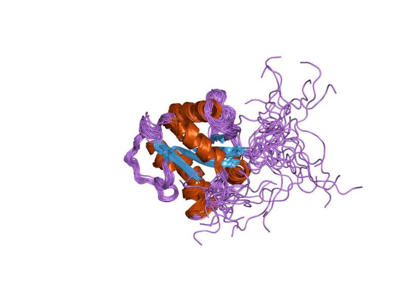 Cartoon representation of the molecular structure of protein registered with 2js7 code.